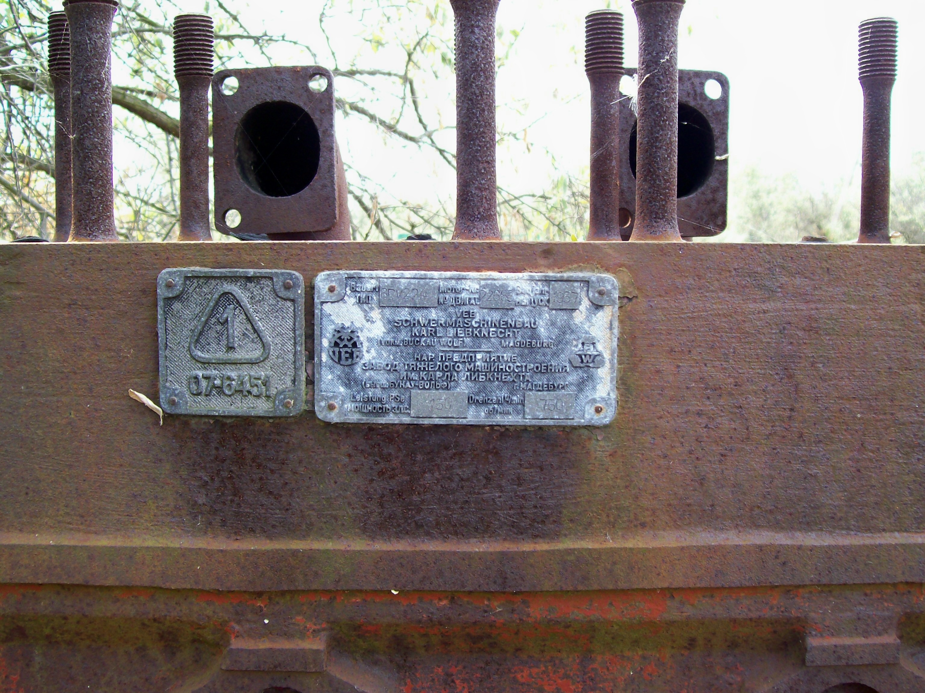 Diesel SKL 6 DV 224, Tuzla Island, august 2007